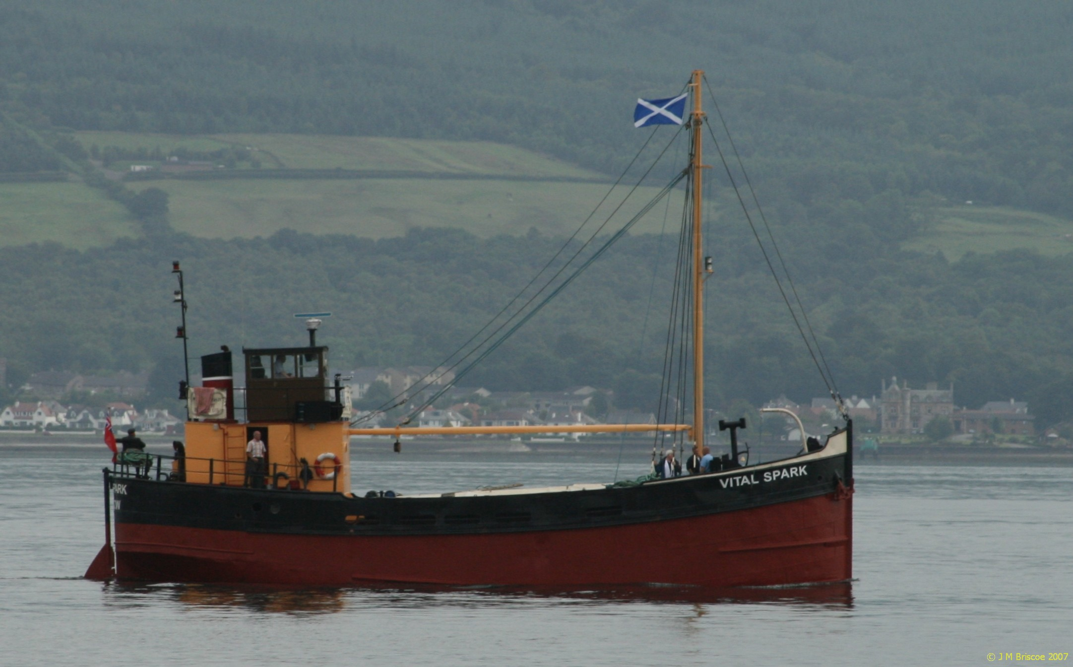 Clyde puffer "Vital Spark" passing Gourock